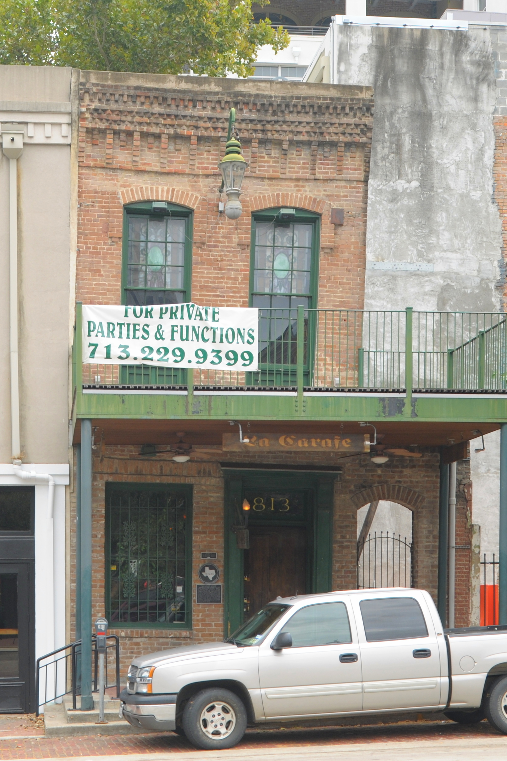 Kennedy Bakery, 813 Congress St., Houston (Texas, USA) is listed in the National Register of Historic Places, United States Department of the Interior.